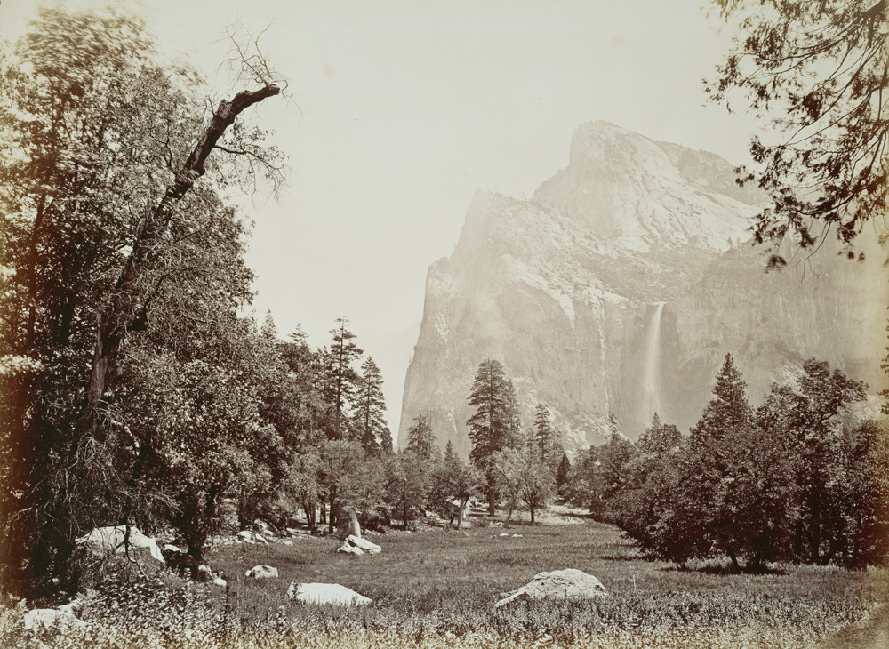 An album by Carleton E Watkins (1829-1916), one of the finest American landscape photographers of the nineteenth century.